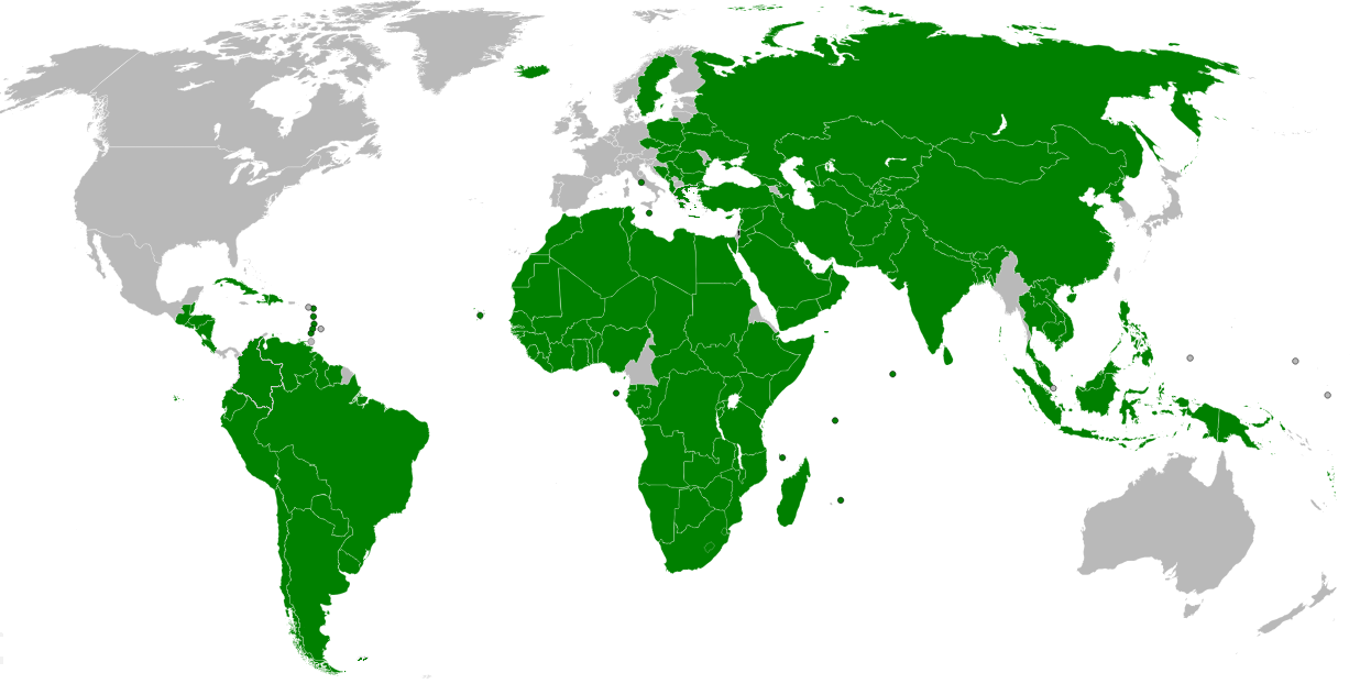 Add Grecee